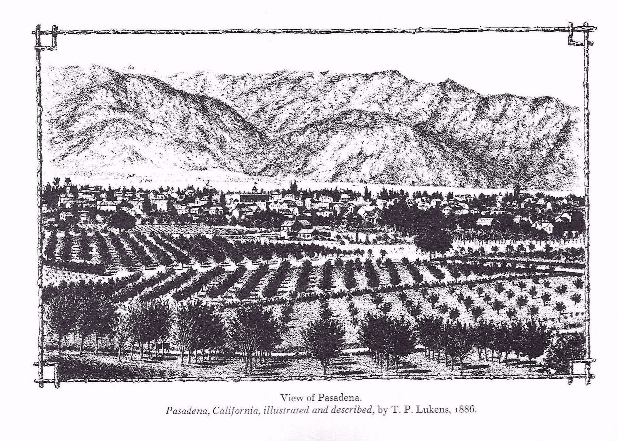 Drawing of citrus orchards in Pasadena, California in the 1880s.